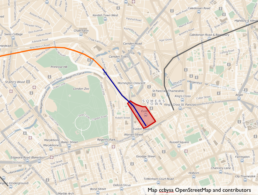 Proposed layout of High Speed 2 terminus at Euston Station and also the terminus for High Speed 1 at St Pancras Station